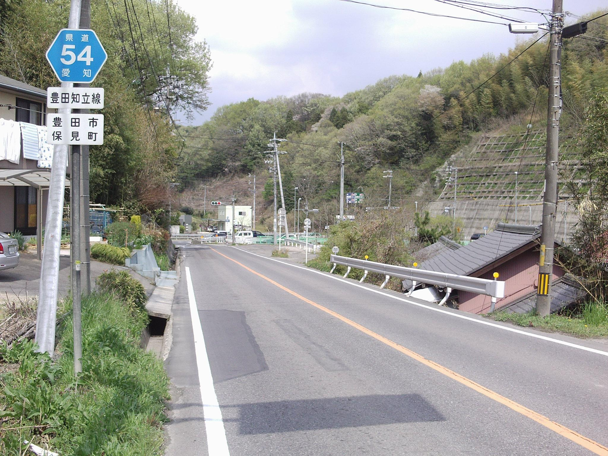 Aichi prefectural road No.54 in Homicho, Toyota, Aichi.